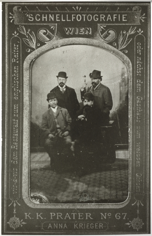 Fltr: Hugo von Hofmannsthal, Richard Beer-Hofmann, Arthur Schnitzler and Hermann Bahr. (Tintype)